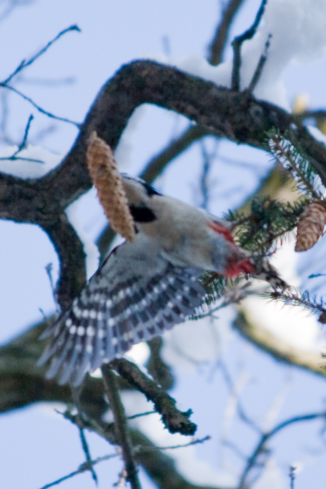 Great Spotted Woodpecker Dendrocopos major with Norway Spruce Picea abies cone